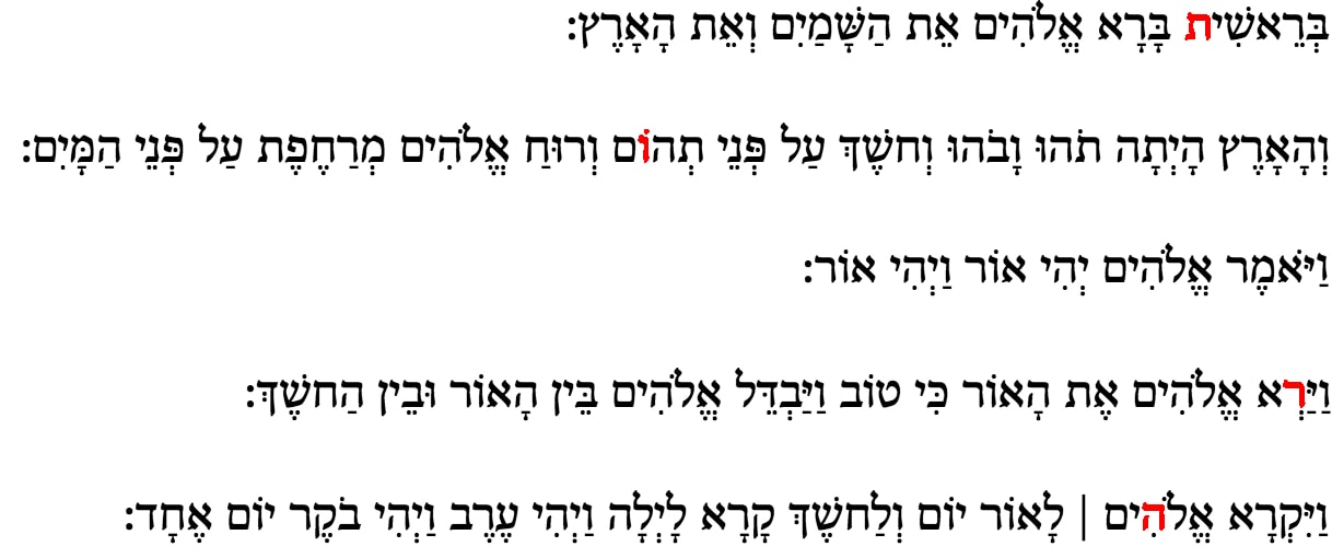 Genesis 1:1-4 with Bible code